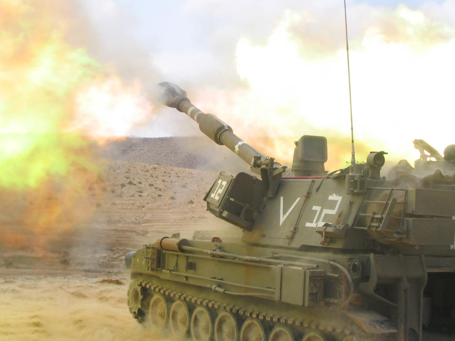 An Israeli M109 "Doher" firing during training